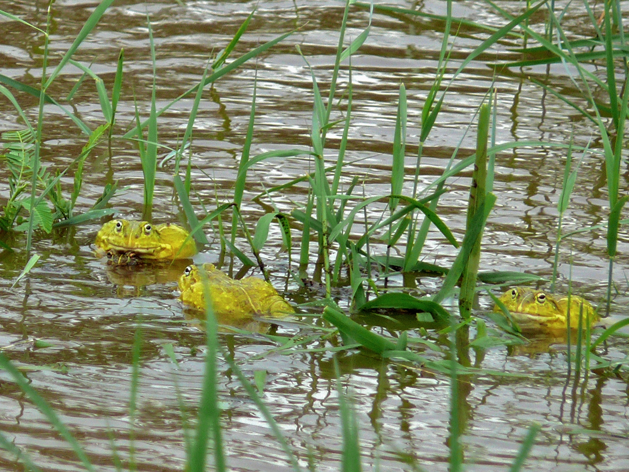 H1-7 North of Shingwedzi, Kruger NP, SOUTH AFRICA